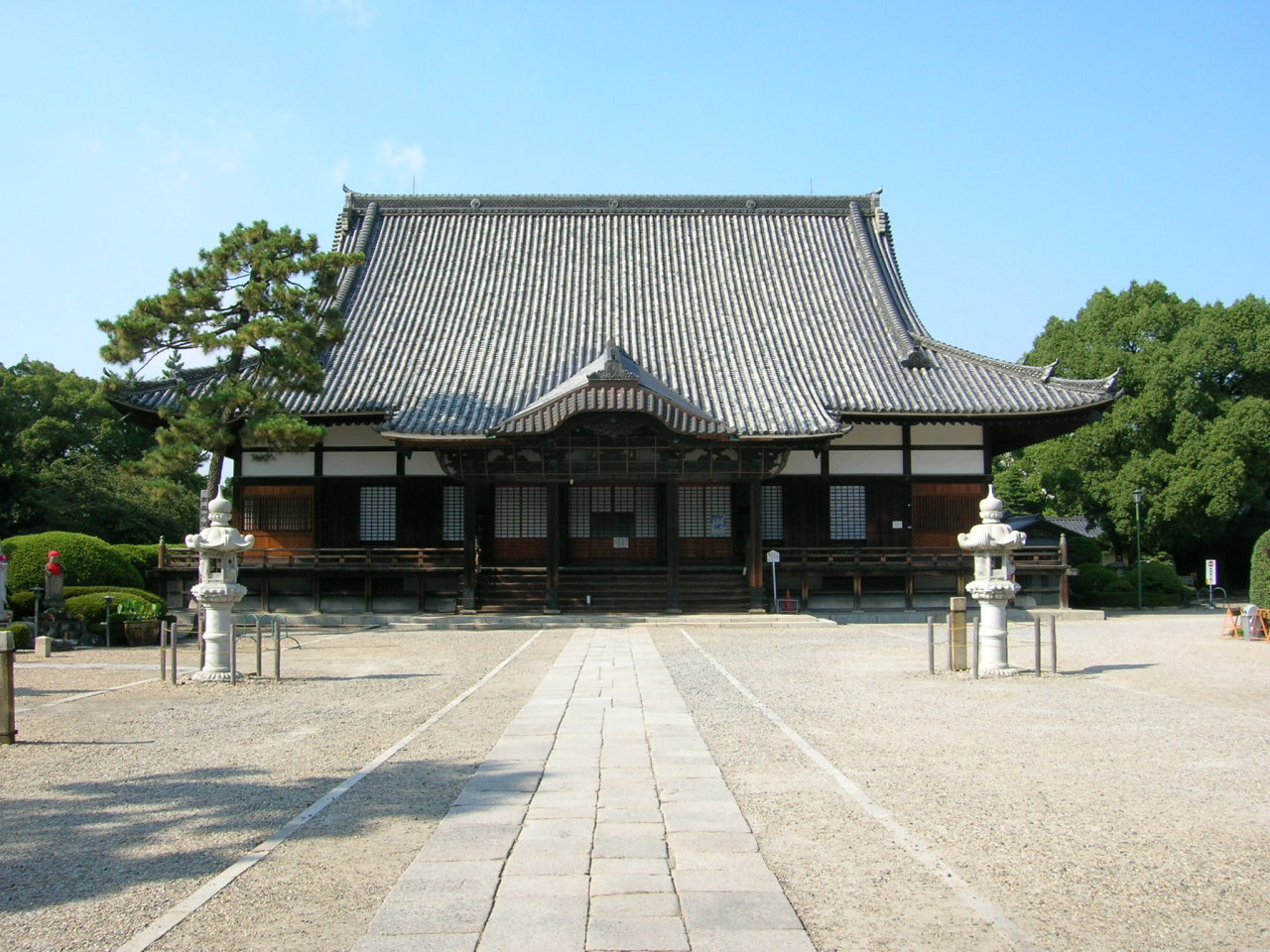 Kenchū-ji Hondoh (Main hall of Kenchū-ji, constructed in 1787 CE.) Loc: Higashi-ku, Nagoya city, Aichi Prefecture, Japan 建中寺 本堂 (天明7年建造) 撮影場所 愛知県名古屋市東区